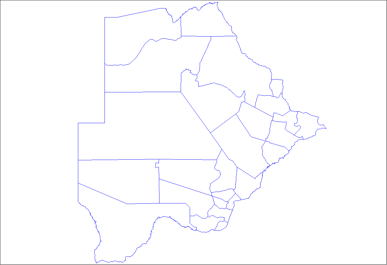 Map of the sub-districts of Botswana. Created by Rarelibra 13:37, 29 March 2007 (UTC) for public domain use, using MapInfo Professional v8.5 and various mapping resources.